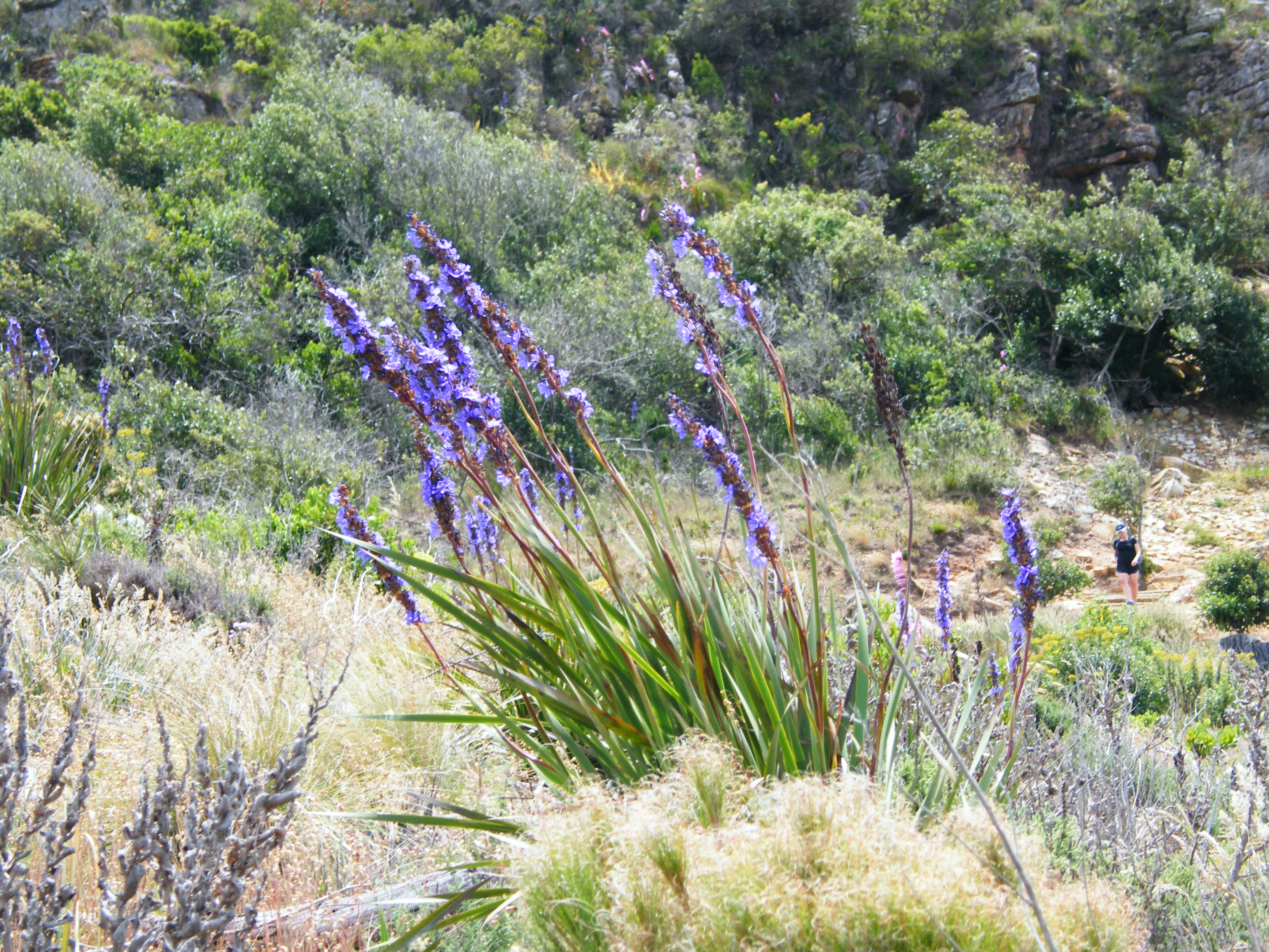 Aristea